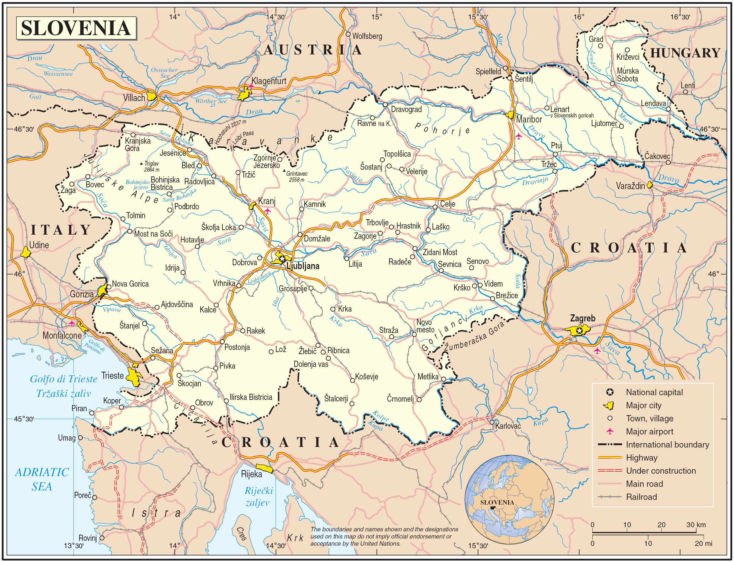 Map of Slovenia